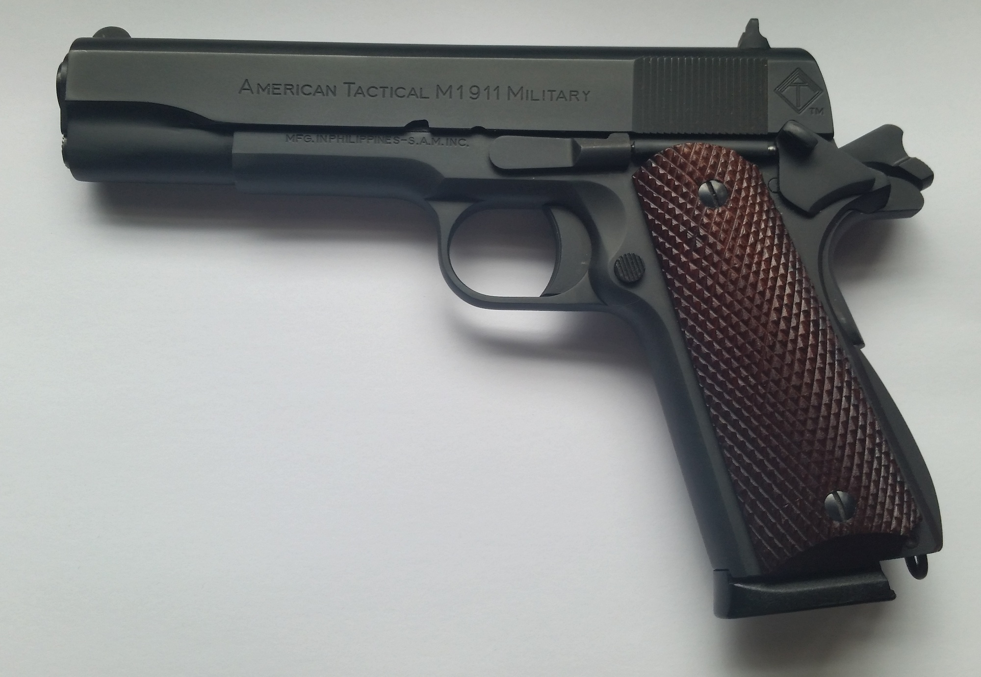 American Tactical Imports (ATI) M1911 Government in Condition 3 (magazine loaded, chamber empty, cocked, locked), left side. Full size (5" barrel) duty pistol chambered for .45 ACP. Manufactured by Shooter's Arms Manufacturing (S.A.M.) in the Philippines.